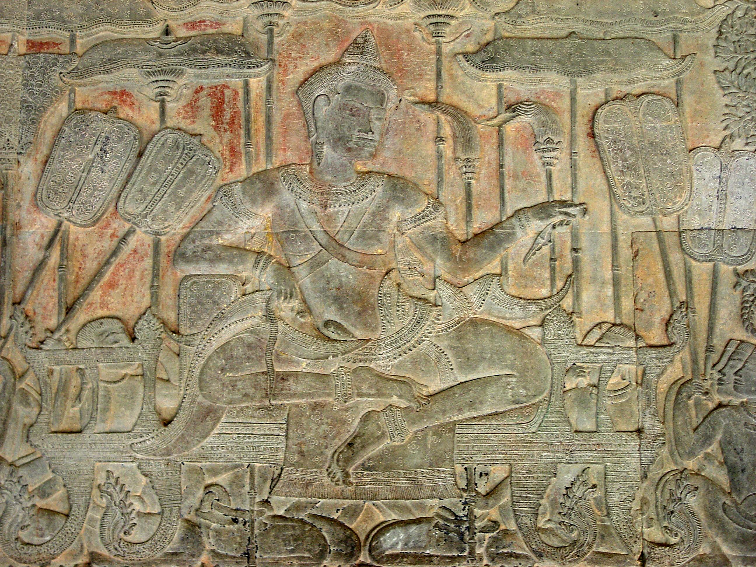 This relief depicts a procession of Suryavarman II, the builder of the temple. It is located in the west wing of the south gallery. The king sits in state upon a naga-footed divan, surrounded by royal parasols, fans, and fly-whisks.